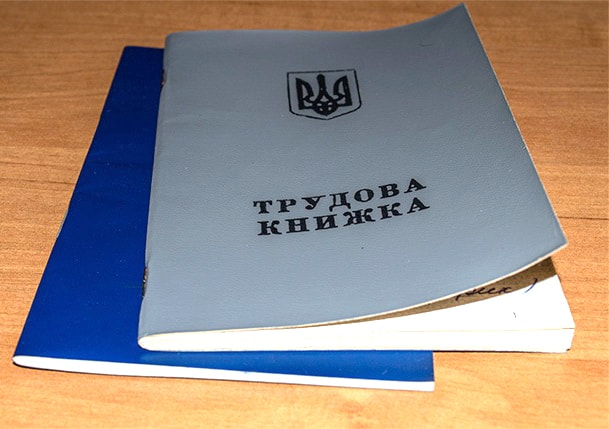 working book, Ukraine